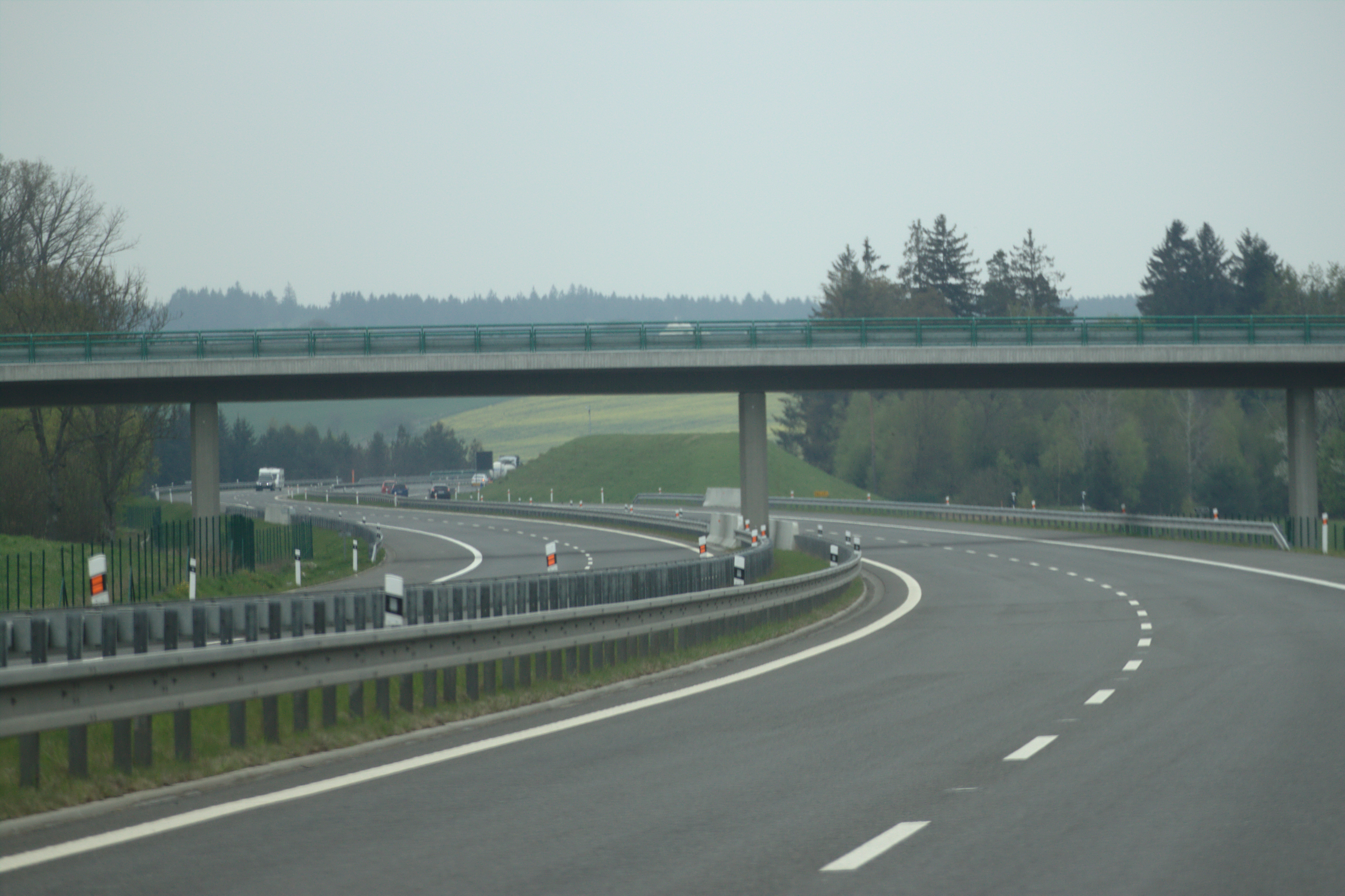 D3 Highway near Soběslav, South Bohemian Region, CZ